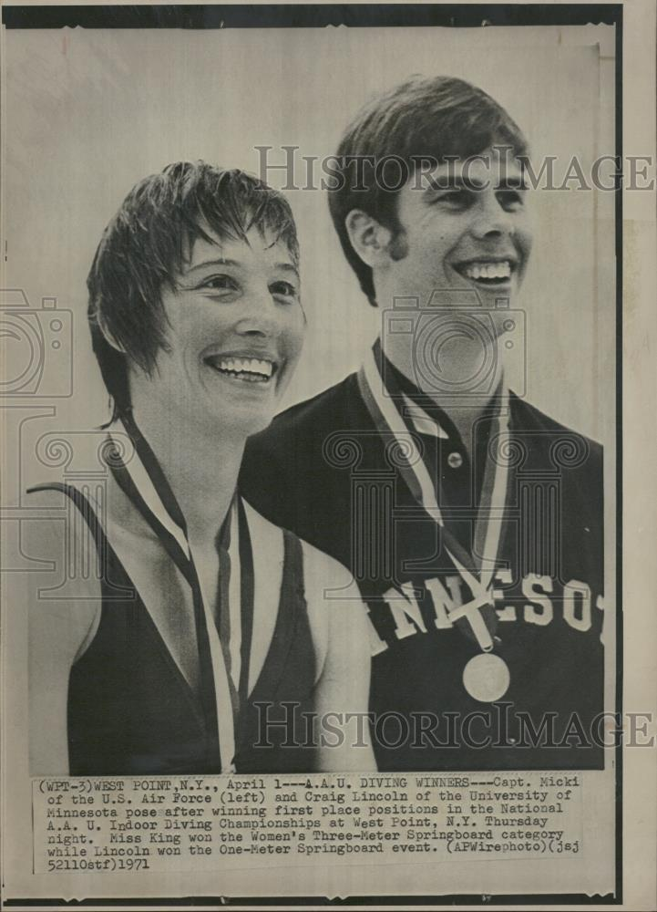 1971 Press Photo AAU Diving Champs Micki King, Craig Lincoln - RRQ29517